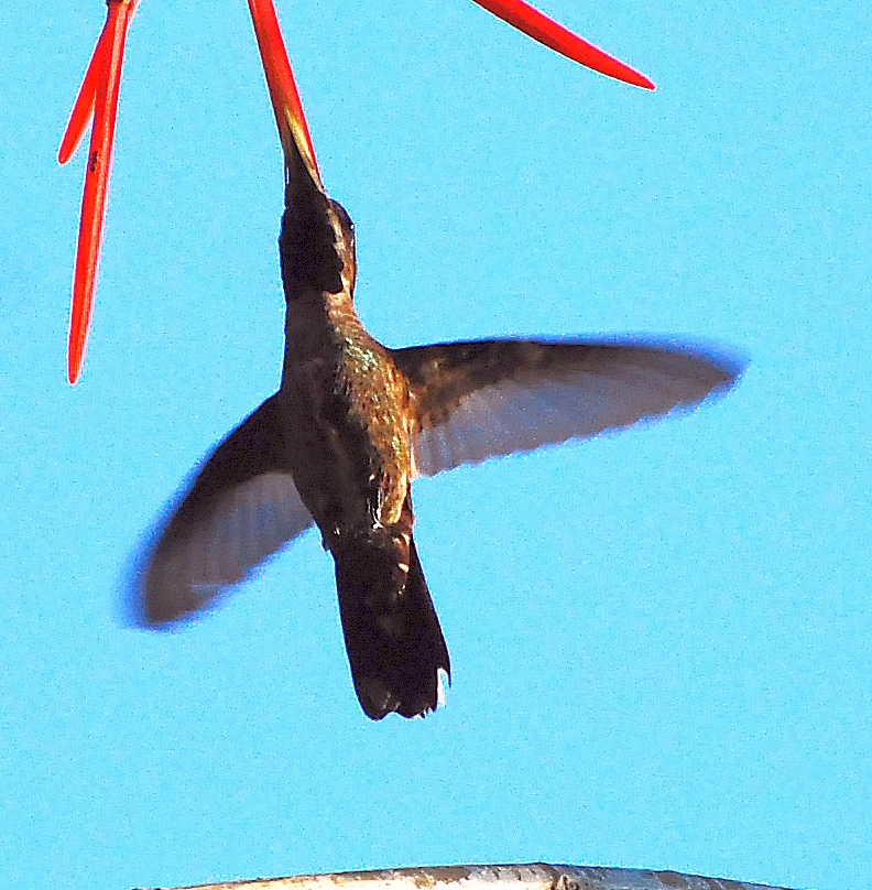 Plain-capped Starthroat at Rancho Dioon, Oaxaca, Mexico, 080331. Heliomaster constantii (to be confirmed).